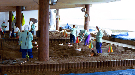 A black sand (sunamushi) onsen in Ibusuki, Japan. Photo by Robert La Ferla.